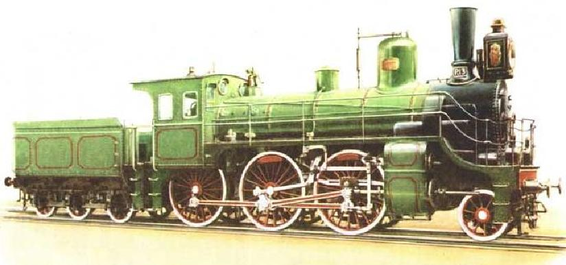 Steam locomotive N (russian)